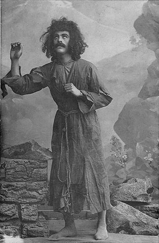 First "Majnun" of "Leyli and Majnun" opera - Huseyngulu Sarabsky, Baku. 1909